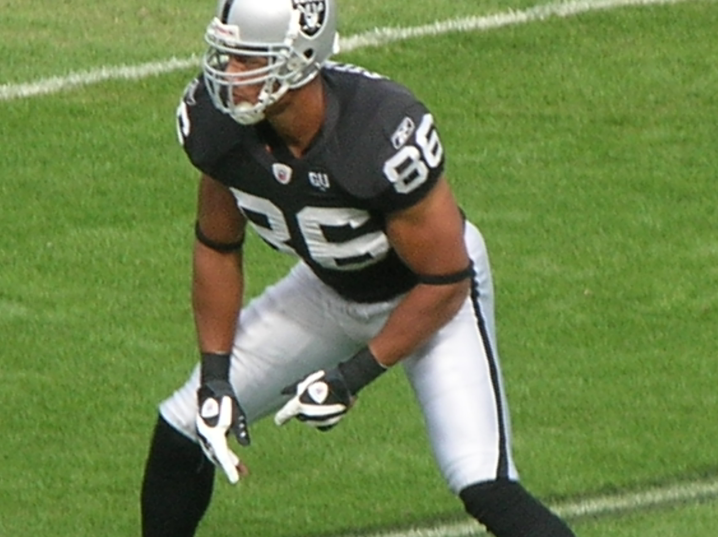 Oakland Raiders tight end Tony Stewart prior to a home game against the Atlanta Falcons. The Falcons won 24-0.